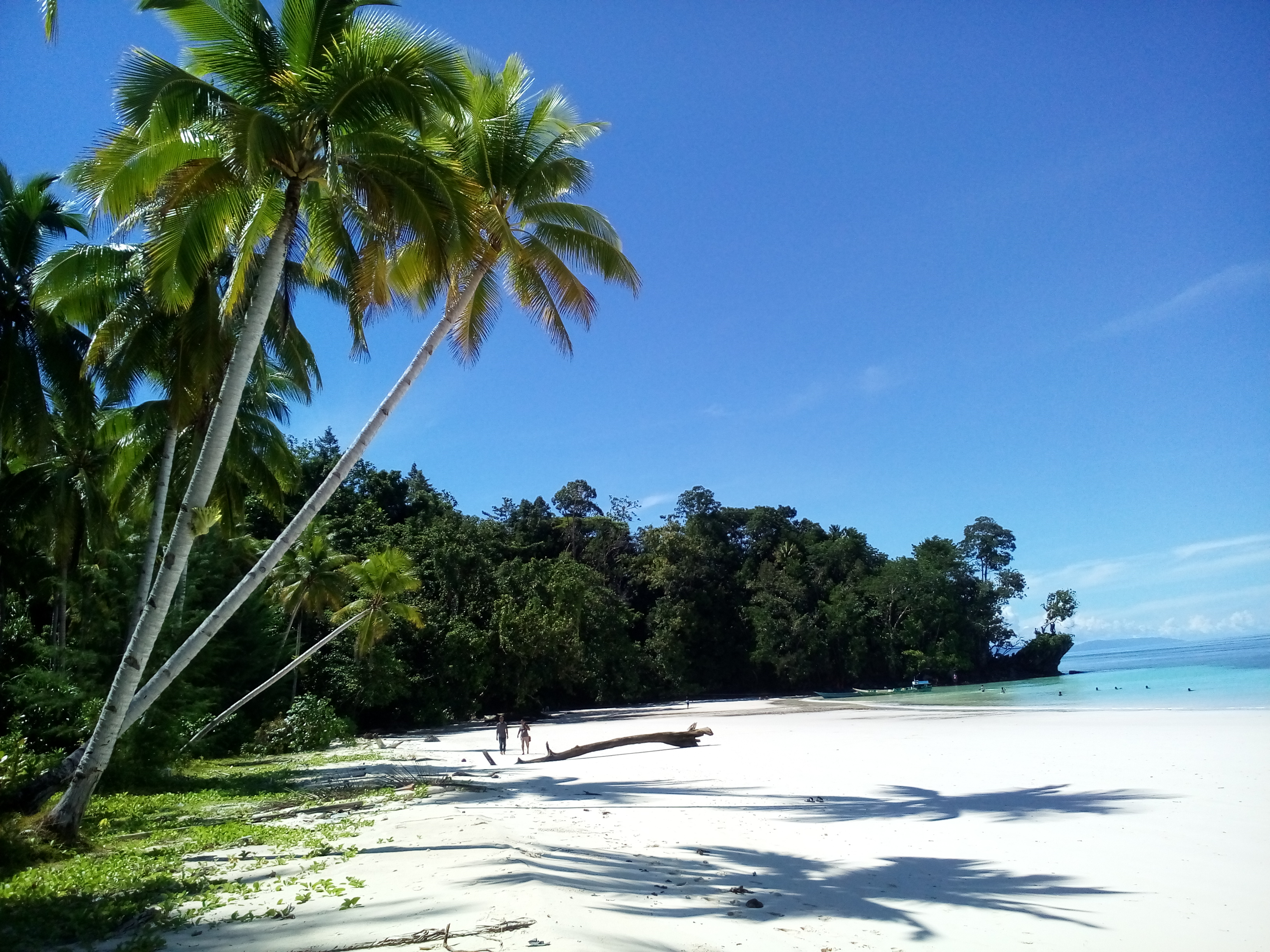 Pantai Wayob merupakan sebuah pantai berpasir putih dengan hamparan pohon kelapa di Pulau Panjang Kabupaten Fakfak Papua barat.